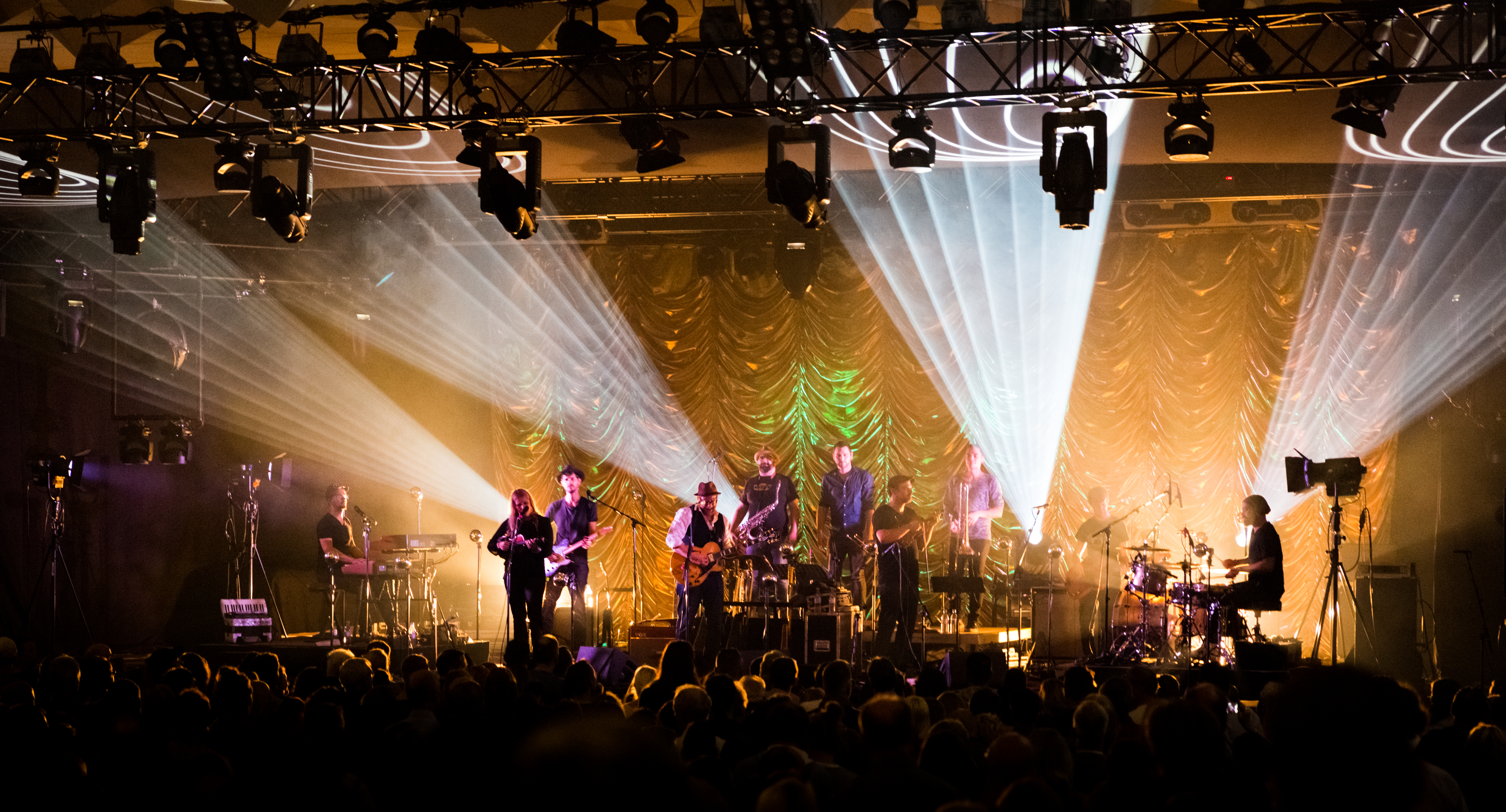 Gregor Meyle - Leverkusener Jazzt 2016